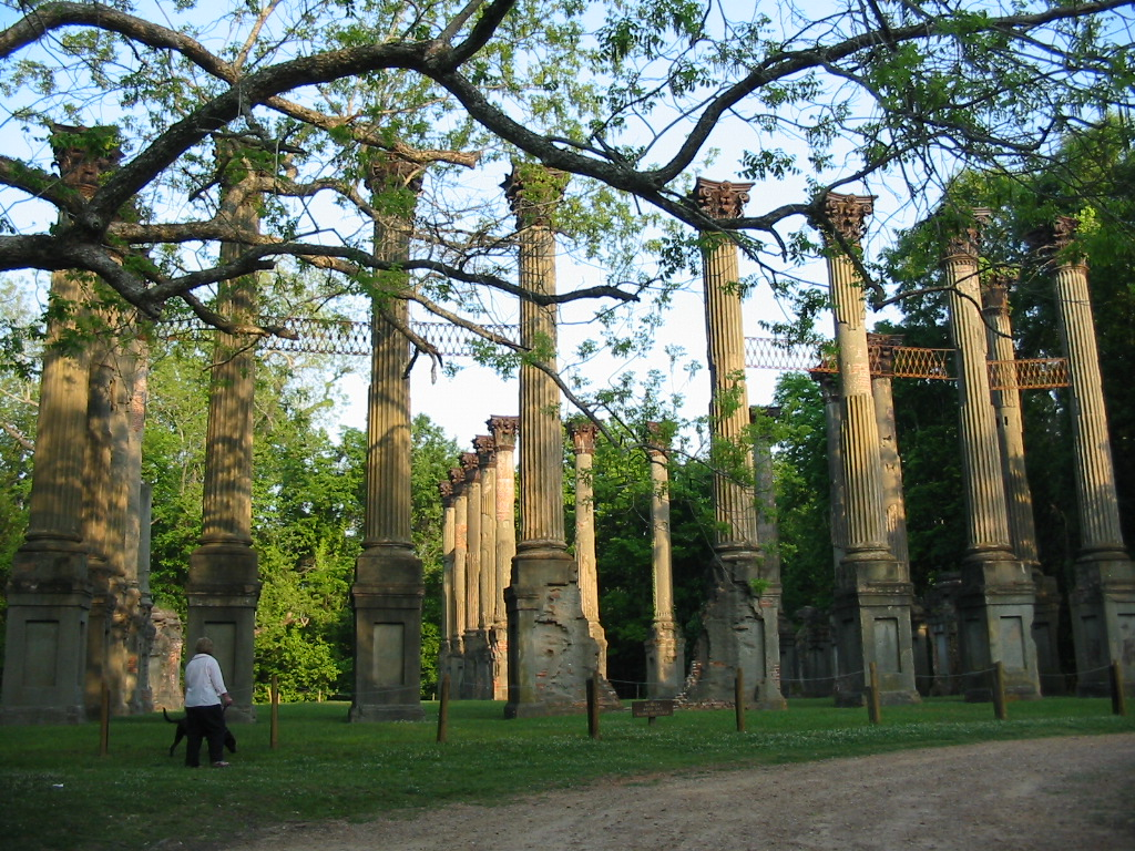 The Windsor Ruins - a large burnt-down antebellum mansion.